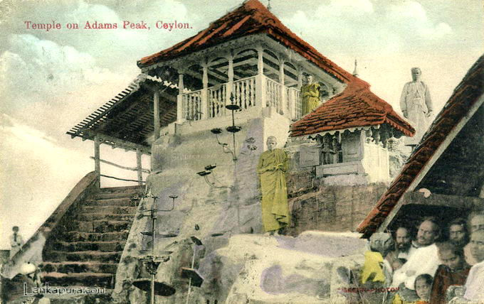 The mountain of the Holy Footprint or Sri Pada is the second highest peak in the country at 7352 ft and is located in the Ratnapura district. It has been a place of pilgrimage for hundreds of years for Buddhists, Muslims and Hindus as it is believed that Buddha, Adam or Shiva left his footprint on the mountain-top.